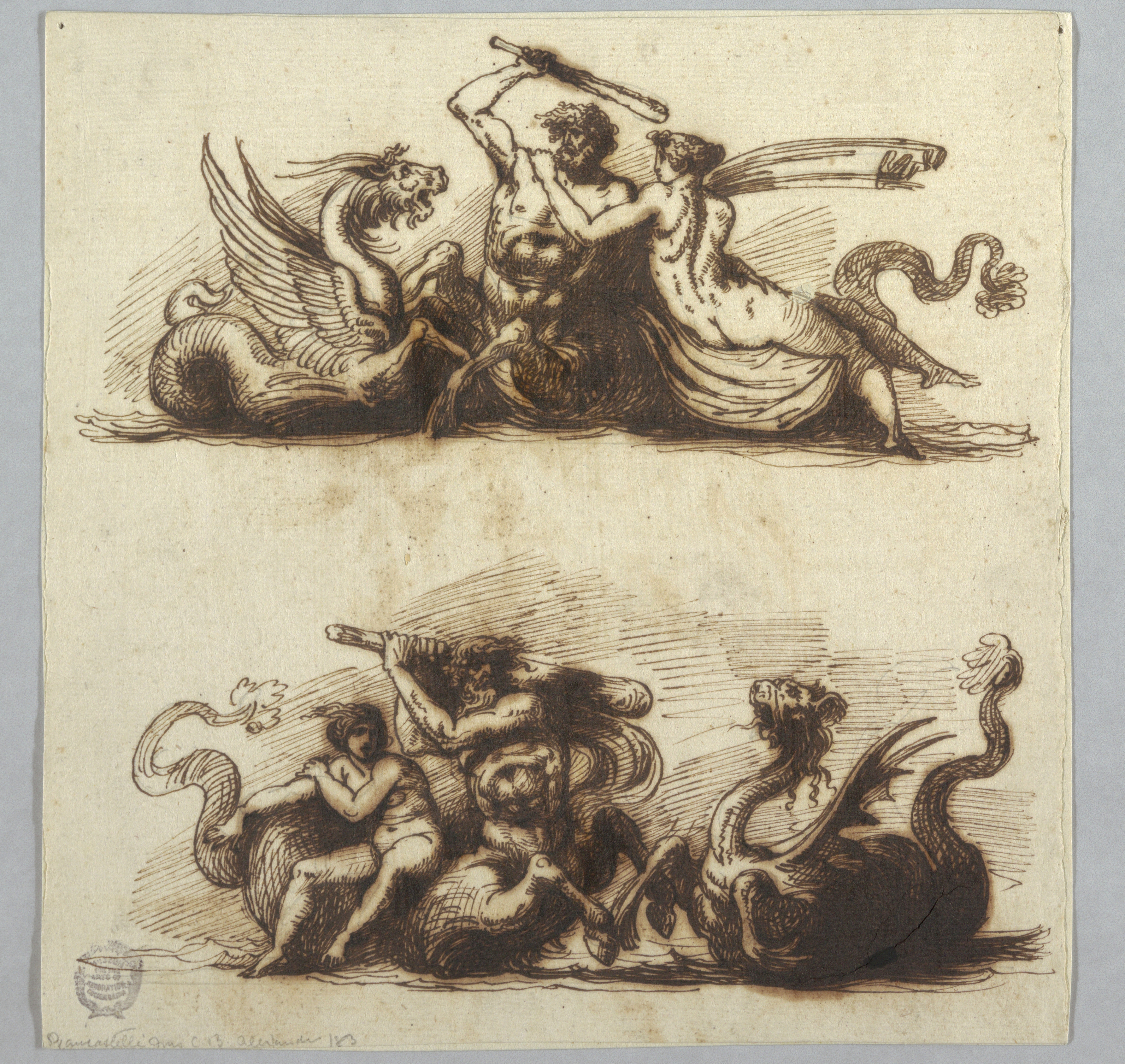 The twin ichthyocentaurs Bythos and Aphros, from from Greek mythology.